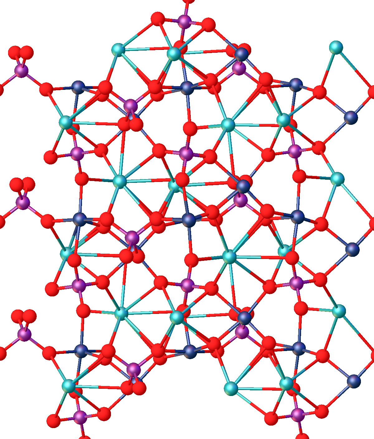 KTiPO5 viewed down b axis